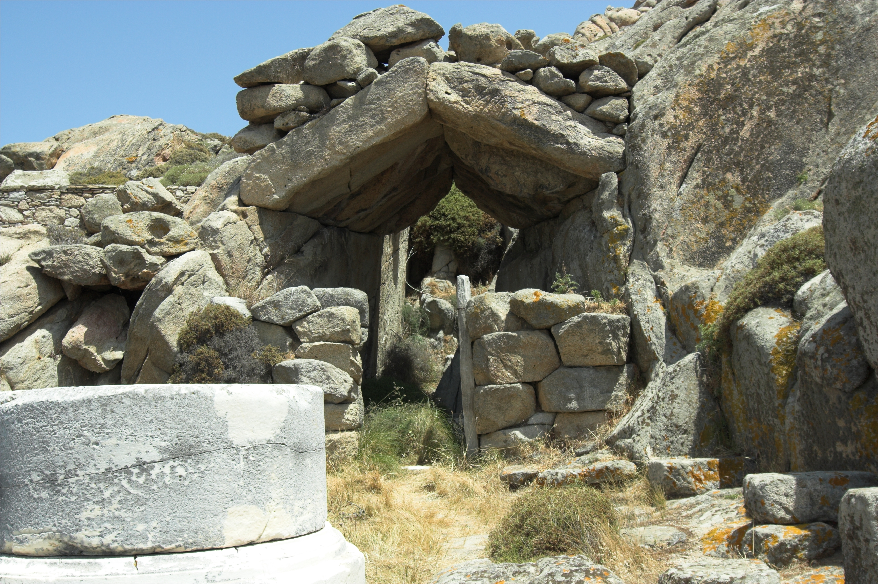 Artificial cave: Cave of Cynthus (Kynthos) on Delos.